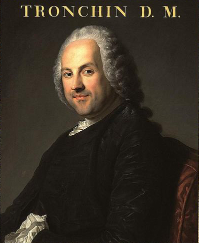 Théodore Tronchin (1709-1781), médecin genevois, professeur à l'Académie